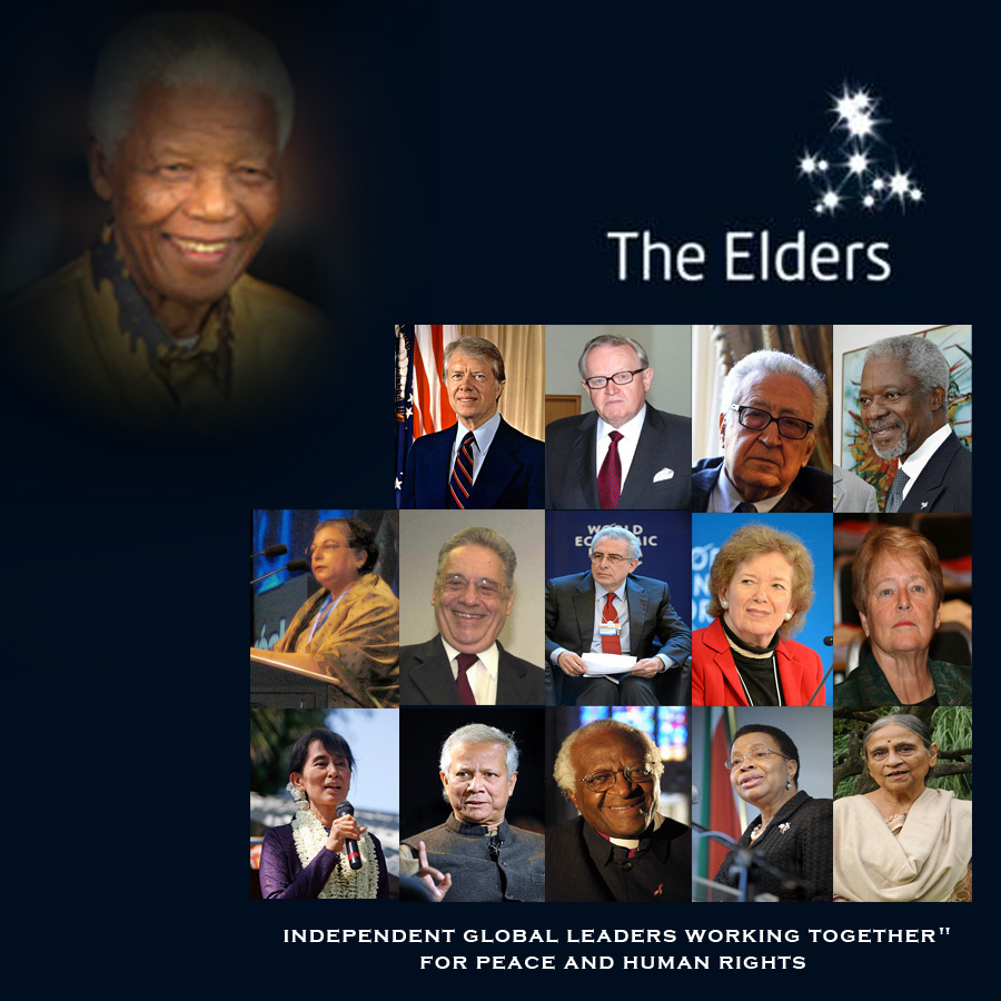 Montage of The Elders